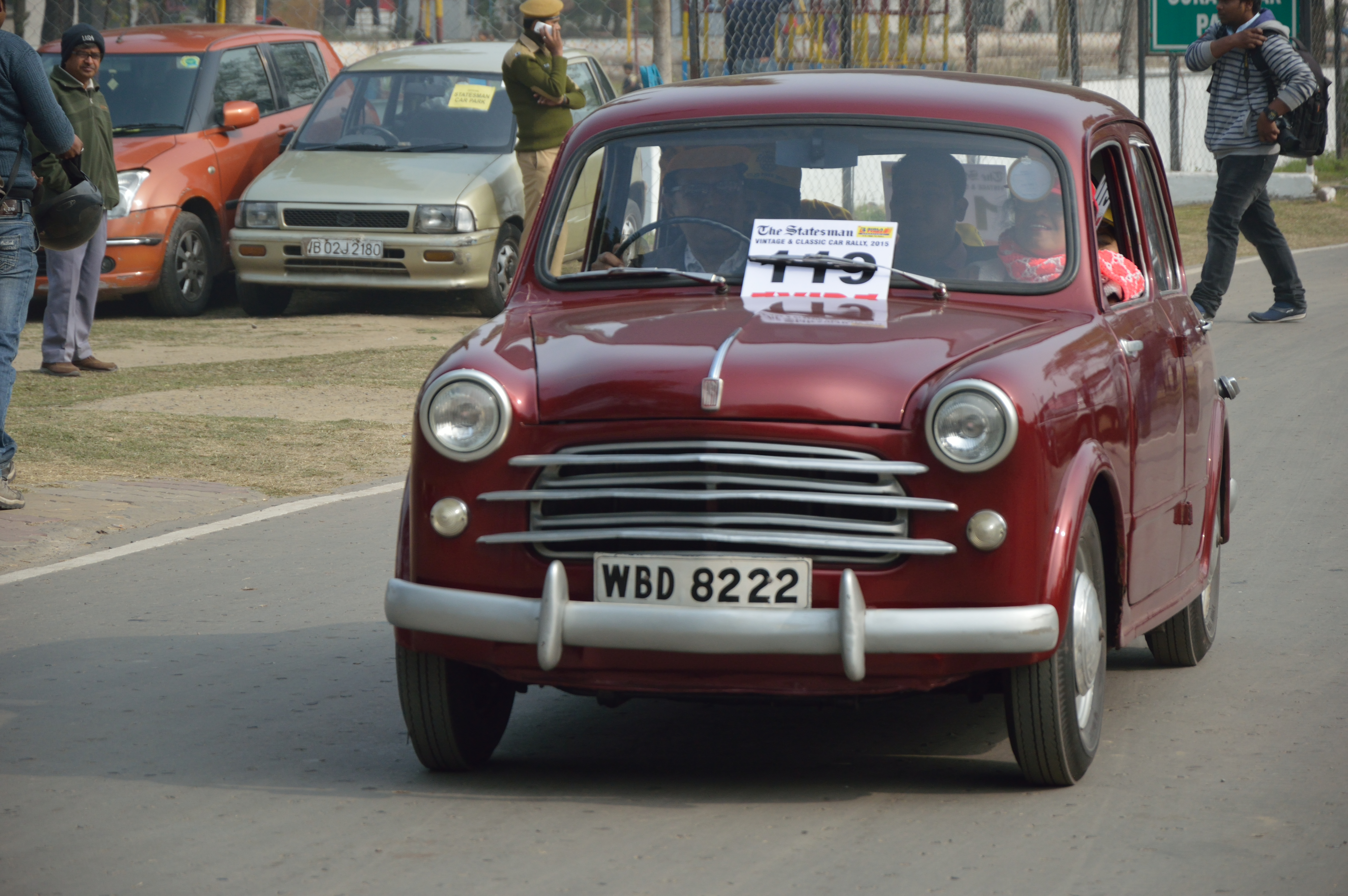 This car was exhibited and took part during ‘The Statesman Vintage & Classic Car Rally 2015’at the Eastern Command Sports Stadium of Fort William, Kolkata. The route was Strand road, Esplanade, Central avenue, Bhupen Bose avenue, Shaymbazaar five points crossing, APC Roy road, AJC Bose road, Sealdah flyover, Sarat Bose, Southern Avenue, Gol Park, after u-turn Southern Avenue, SP Mukherjee road, Hazra crossing, Ashutosh Mukherjee road, Exide crossing, AJC Bose road again Strand road and back to the ECS stadium. The rally was held at the morning on Sunday, 11 January 2015 at the ECS Stadium, where 186 entrants were registered with cars and bikes manufactured from 1906 to 1971. This one day festival usually takes place on the second Sunday of every January in Kolkata since 1968 with full of period costume and cultural period pieces. The car is owned and driven by Deb Kumar Pal .